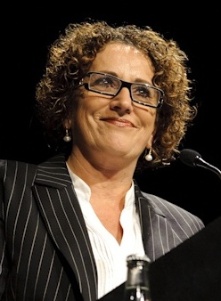 Helen Szoke announces the winner of the 2011 Pirint and Online Media Award